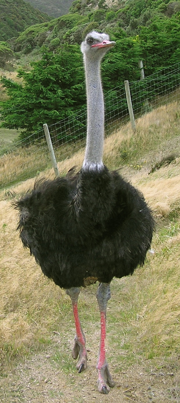 This male Ostrich Struthio camelus is on a farm in Wellington, New Zealand. They are farmed primarily for their low fat meat. The Ostrichs are contained by a 2m high fence.